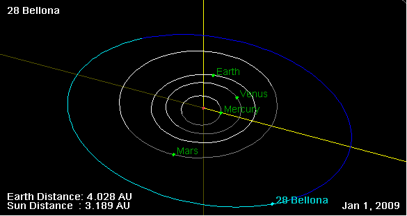 28 Bellona orbit, and his position on 01 Jan 2009 (NASA Orbit Viewer applet)